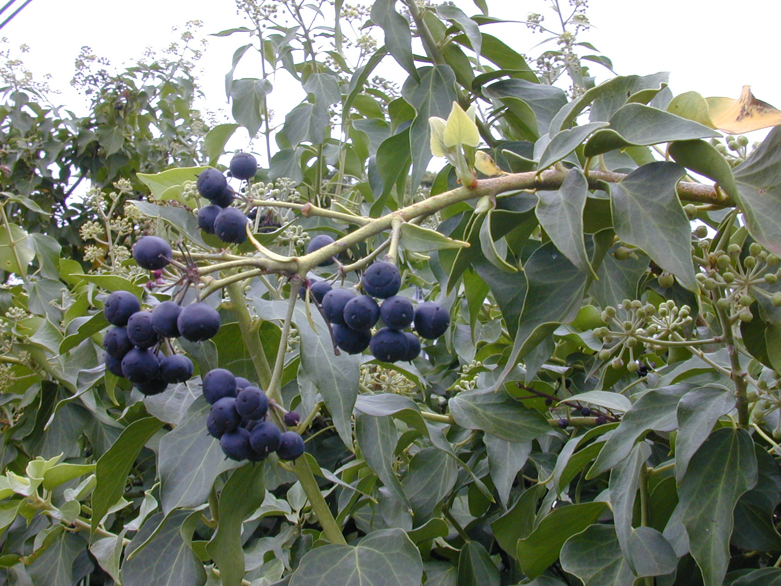 Hedera helix (fruits and leaves). Location: Maui, Kula